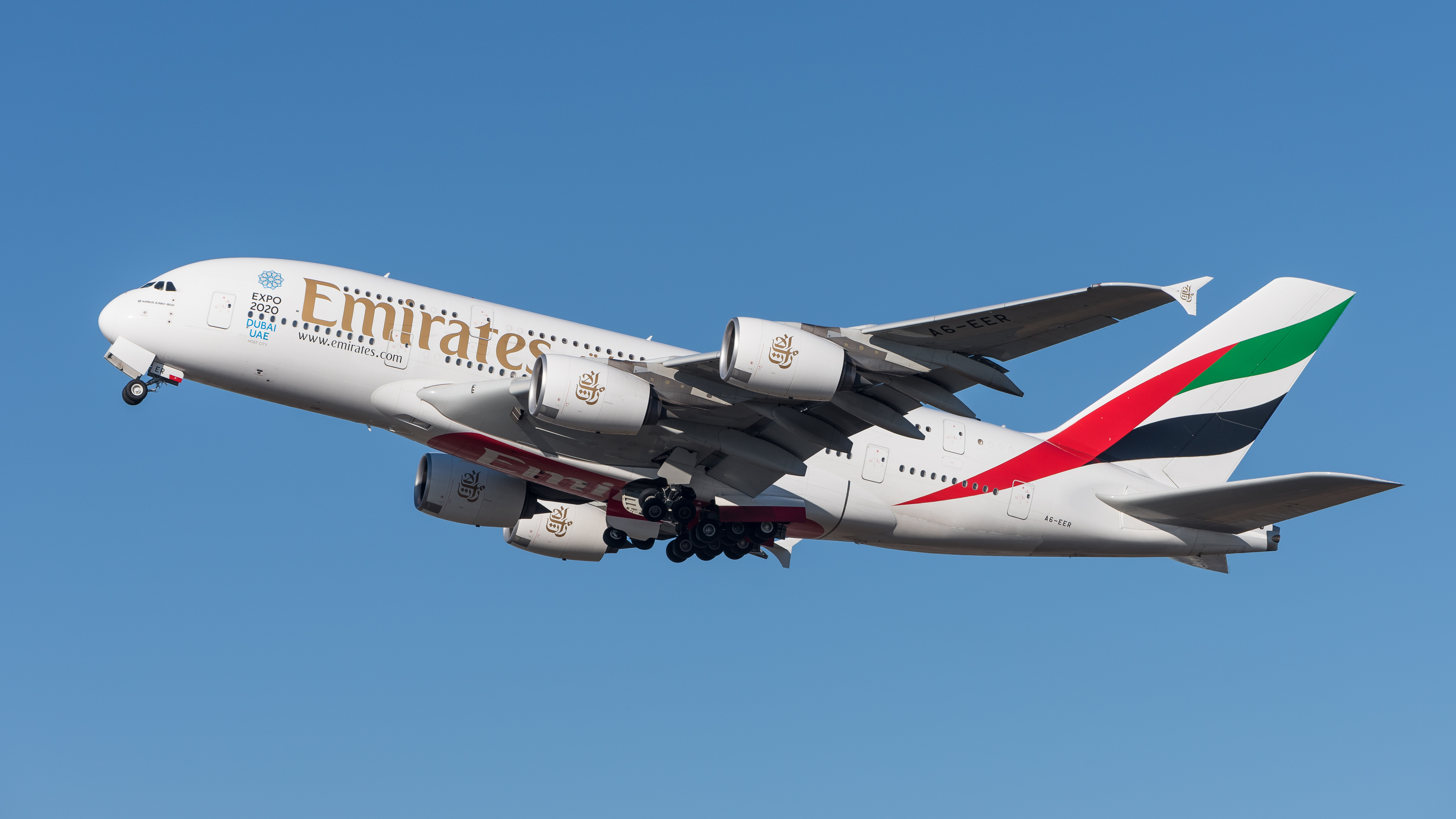 Emirates Airbus A380-861 (reg. A6-EER, msn 139) at Munich Airport (IATA: MUC; ICAO: EDDM) departing 26L. See also : File:Emirates Airbus A380-861 A6-EER MUC 2015 01.jpg File:Emirates Airbus A380-861 A6-EER MUC 2015 02.jpg File:Emirates Airbus A380-861 A6-EER MUC 2015 03.jpg File:Emirates Airbus A380-861 A6-EER MUC 2015 05.jpg